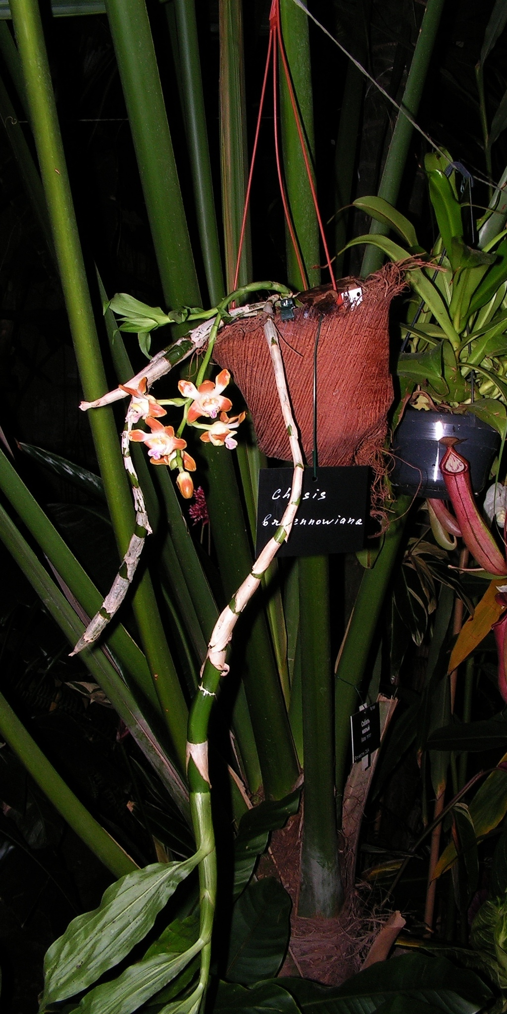 Habit of flowering Chysis bruennowiana. V Winter Orchids Festival at the historical Palm Greenhouse of Moscow State University’s Botanical Garden (Apothecary Garden). Moscow, Russia.